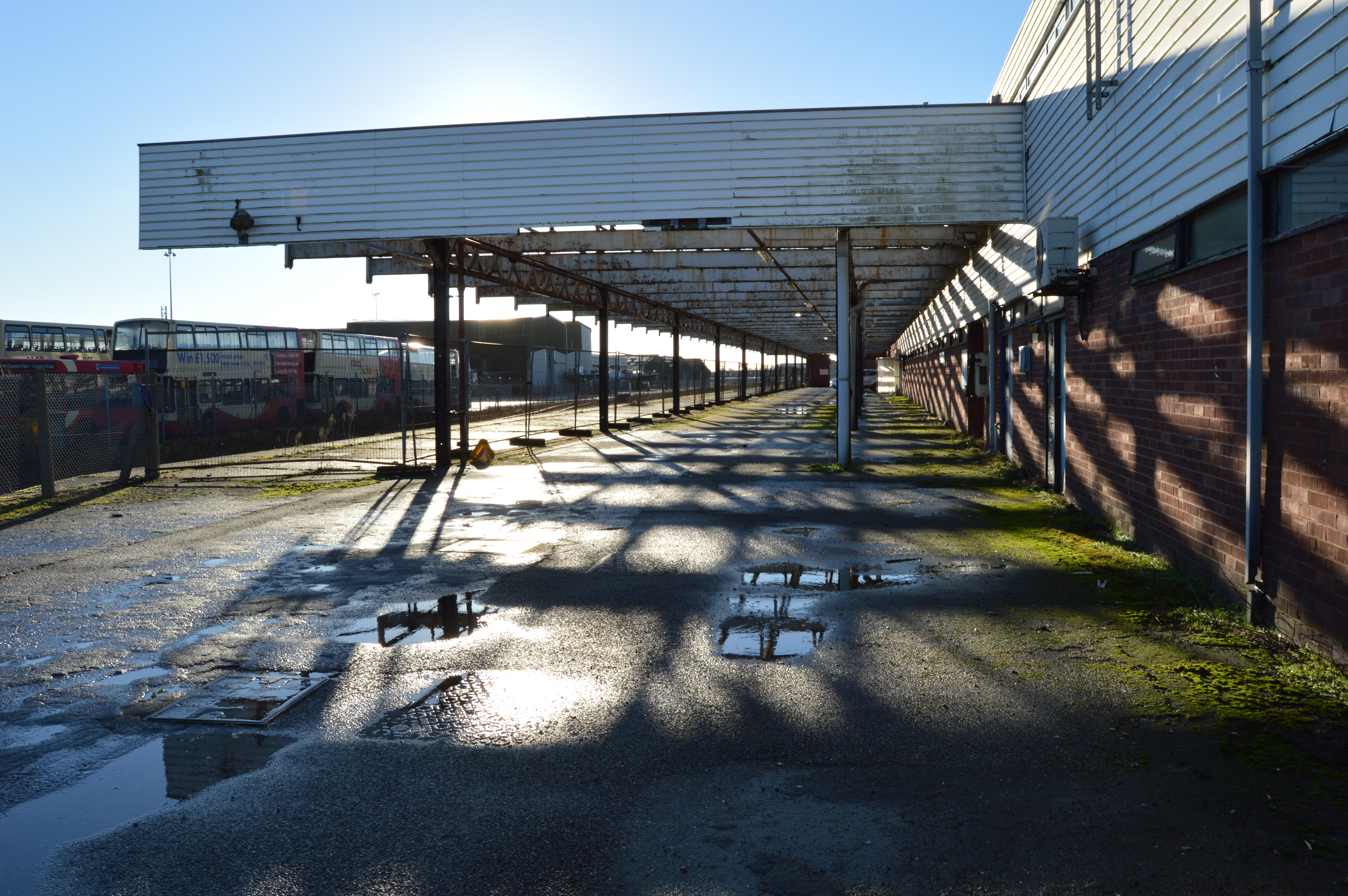 The sole platform of Newhaven Marine station in January 2014.